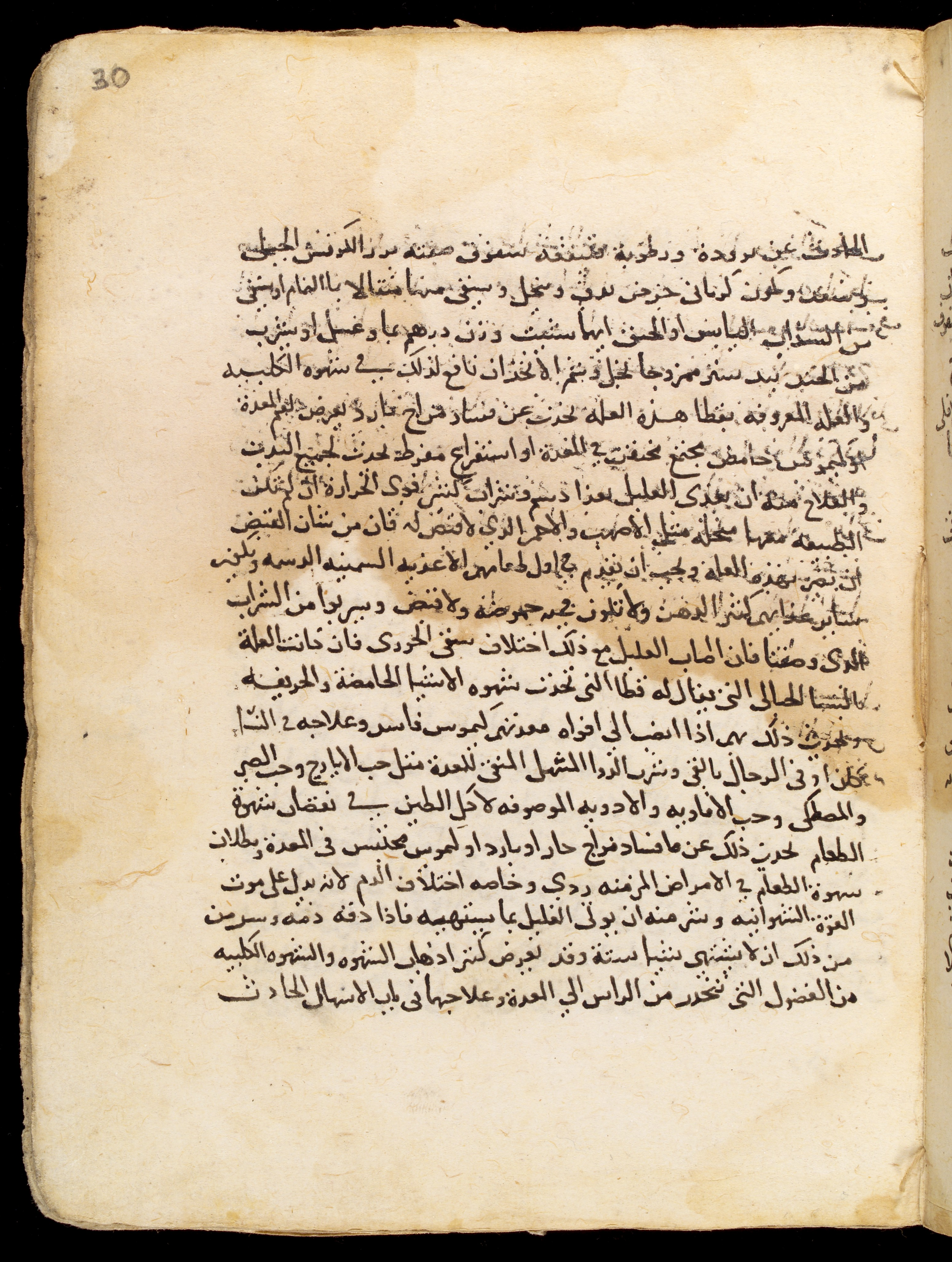 Page from Kitab ad-Dahira fi 'ilm at-Tibb, an Arabic medical compendium on various diseases and their treatment Asian Collection Keywords: Arabic